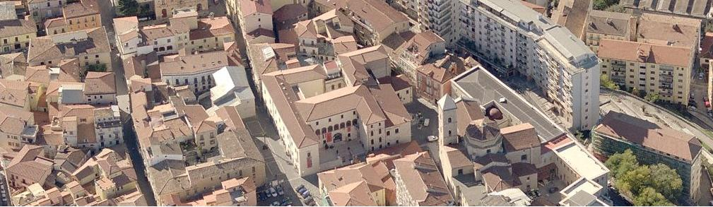 view of historical centre